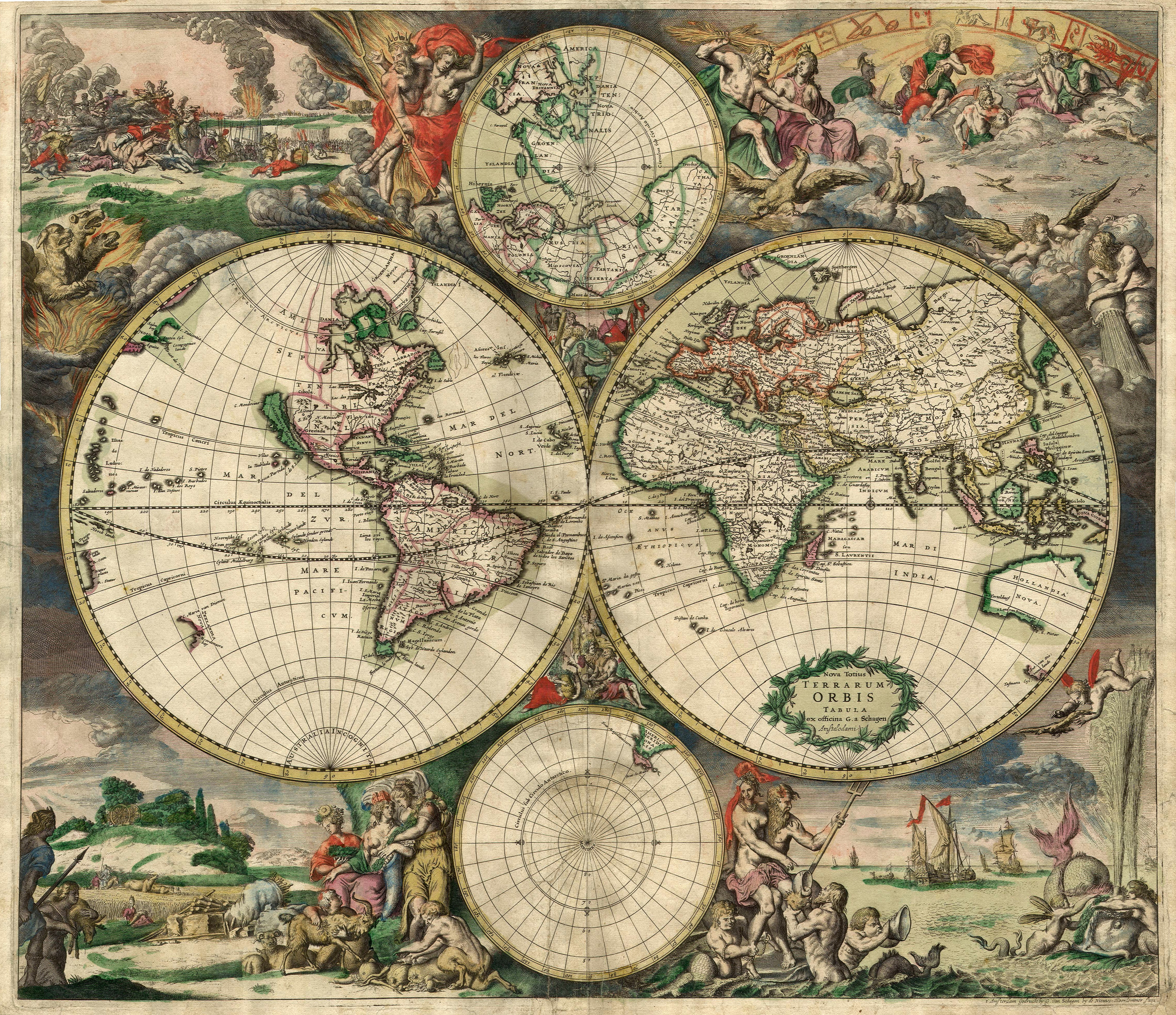 World map - Produced in Amsterdam First edition : 1689. Original size : 48.3 x 56.0 cm. Produced using copper engraving. Extremely rare set of maps, only known in one other example in the Amsterdam University. No copies in American libraries. In original hand color.